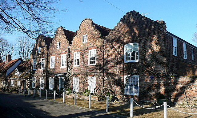 Hills House, Denham, Bucks